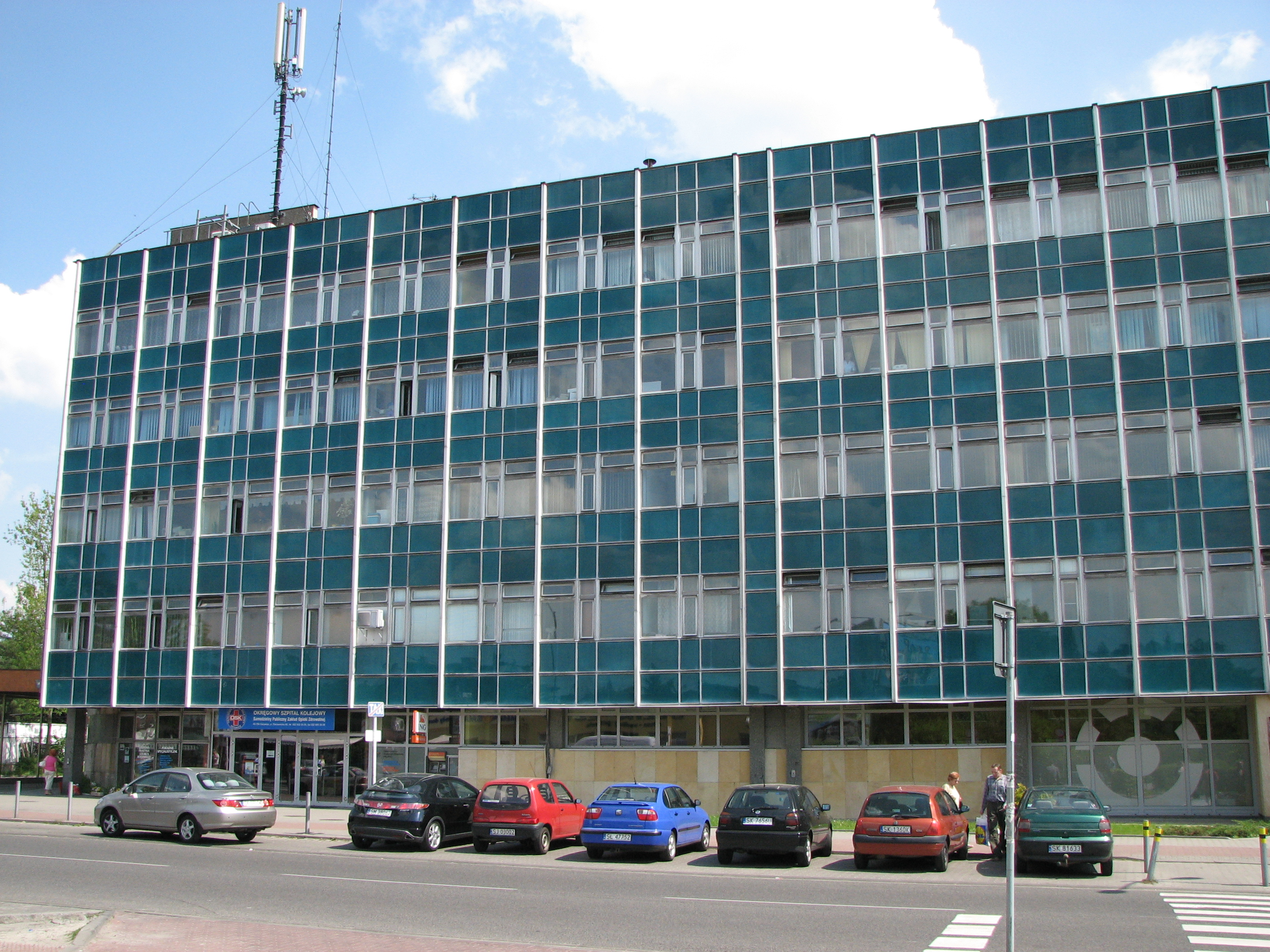 District Railway Hospital in Katowice, Poland